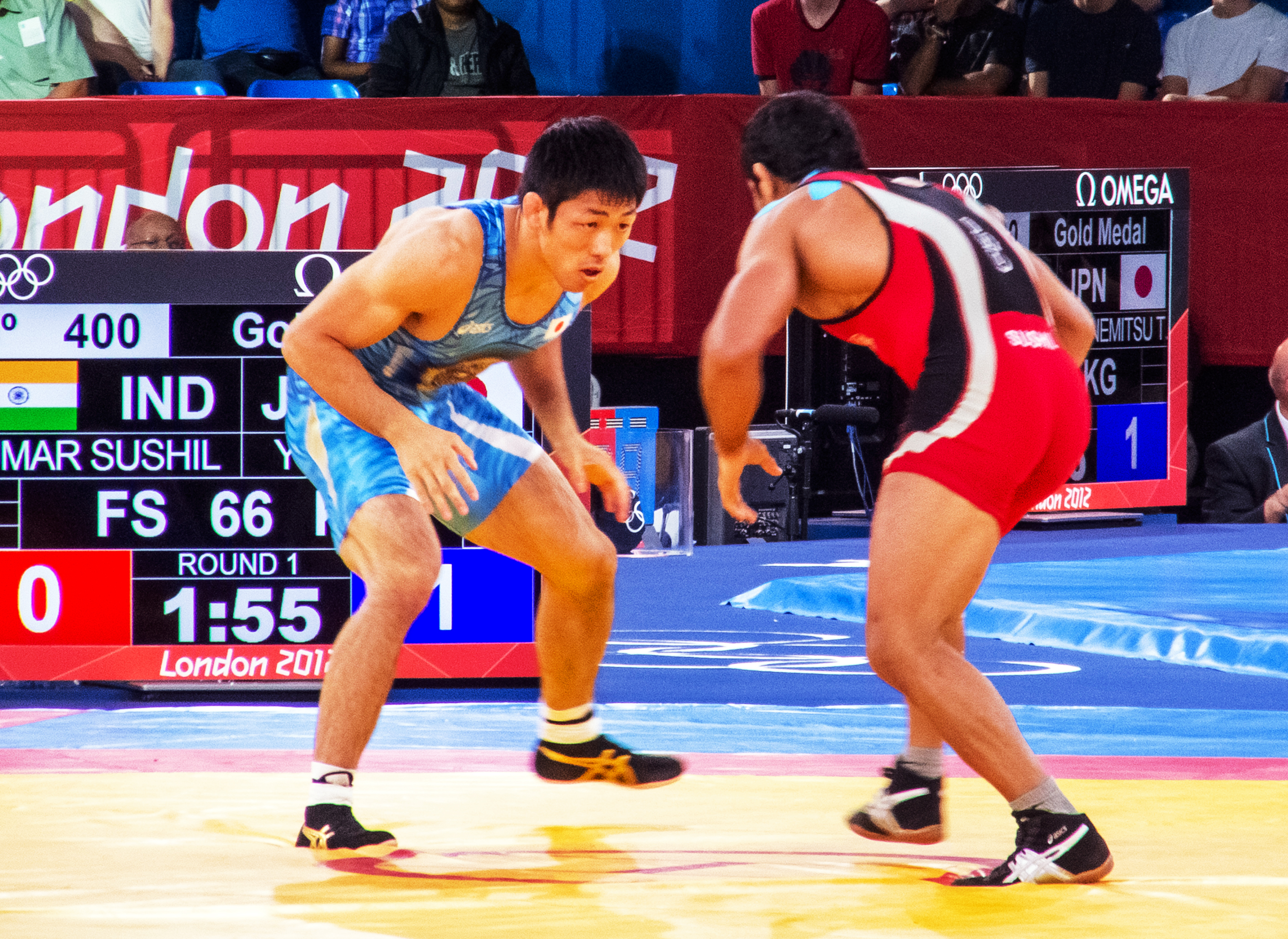 Gold Medal Match, Tatsuhiro Yonemitsu (on the left) vs. Sushil Kumar, at the 2012 Summer Olympics.